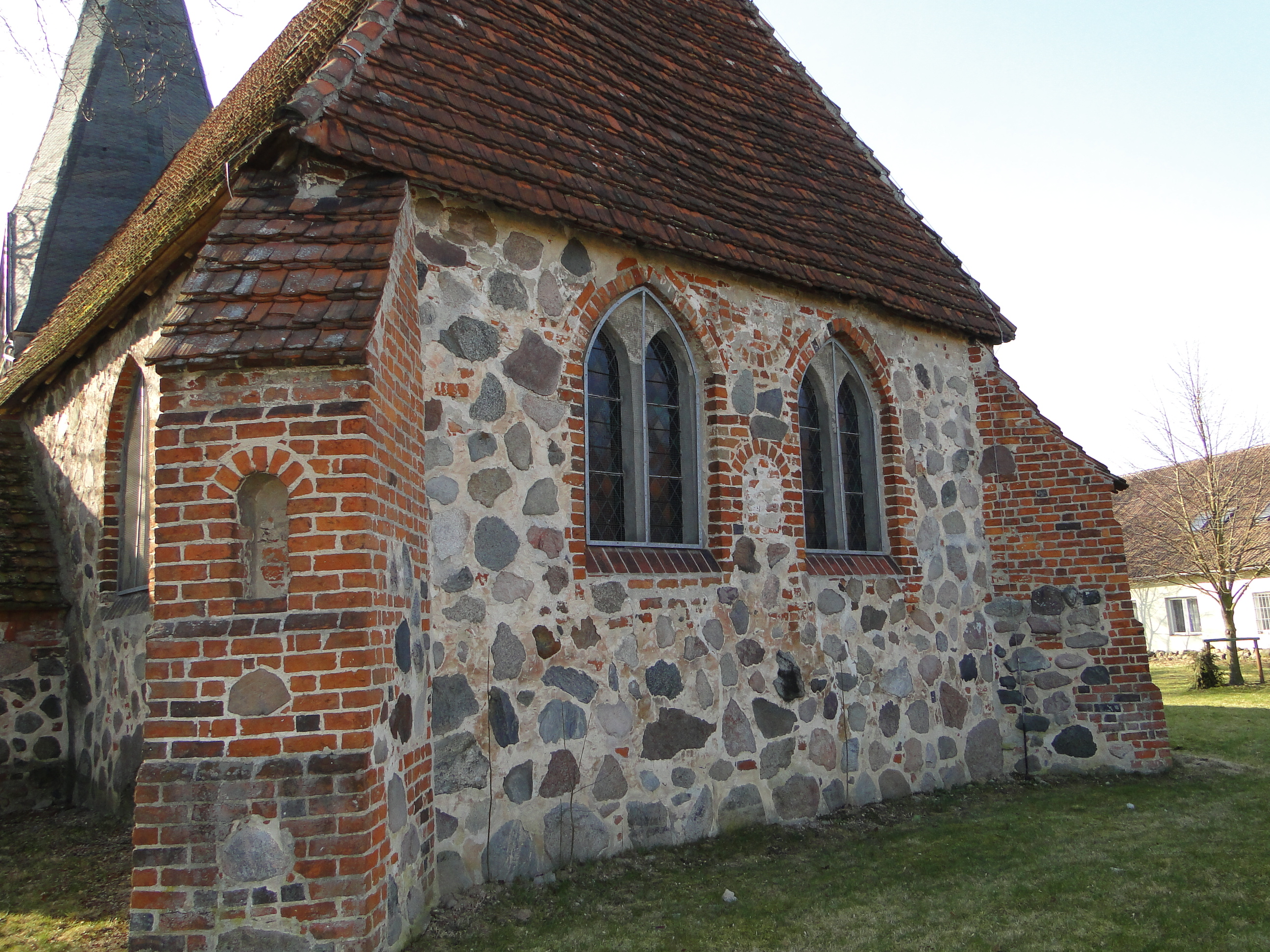 Church in Below, district Ludwigslust-Parchim, Mecklenburg-Vorpommern, Germany